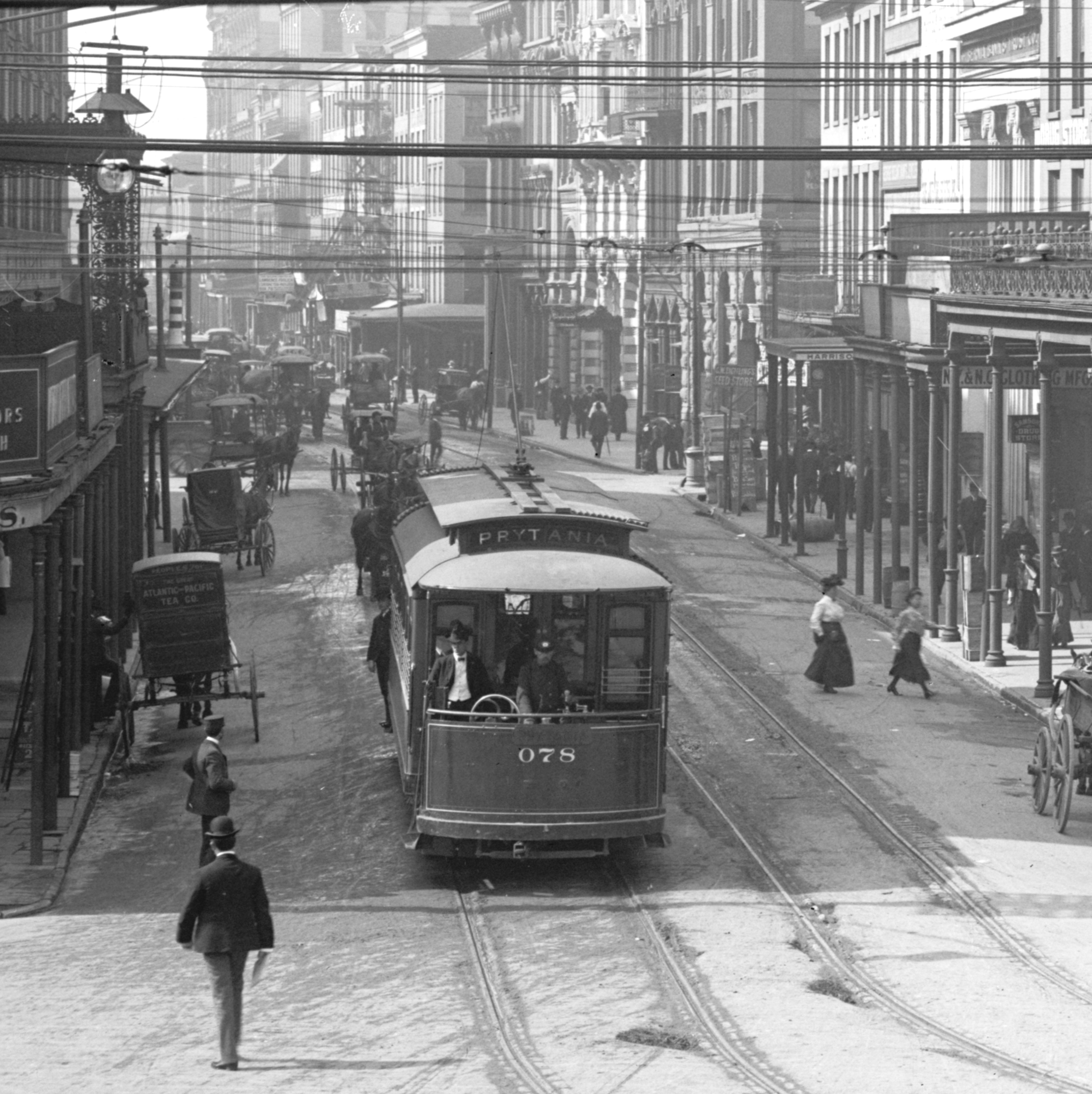 Street car 078 in Canal Street, New Orleans